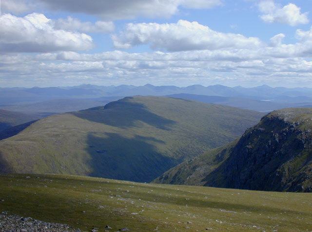 View south from Chno Dearg Taken from the slopes of Chno Dearg, at the point where the mossy slopes visible in the picture give way to stony ground, seen in the bottom left corner. The cliffs of Meall Garbh are on the right, with Beinn na Lap in the distance.